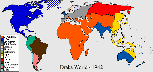 Drakaverse world map 1942